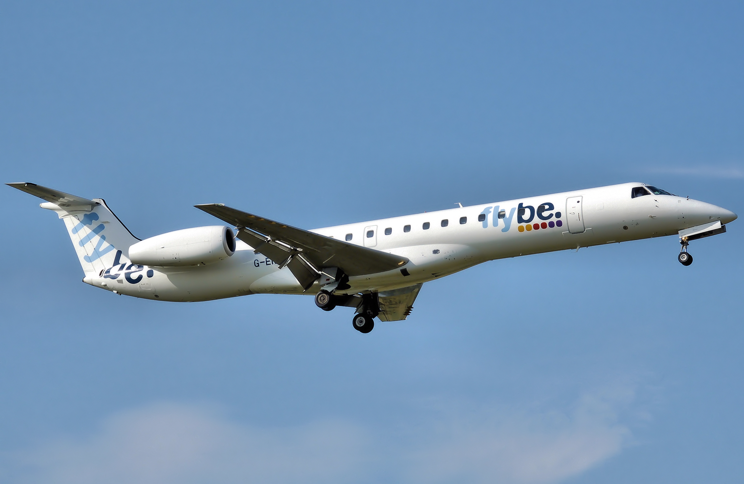 Flybe Embraer ERJ 145 (G-ERJA) lands at Birmingham International Airport, England.